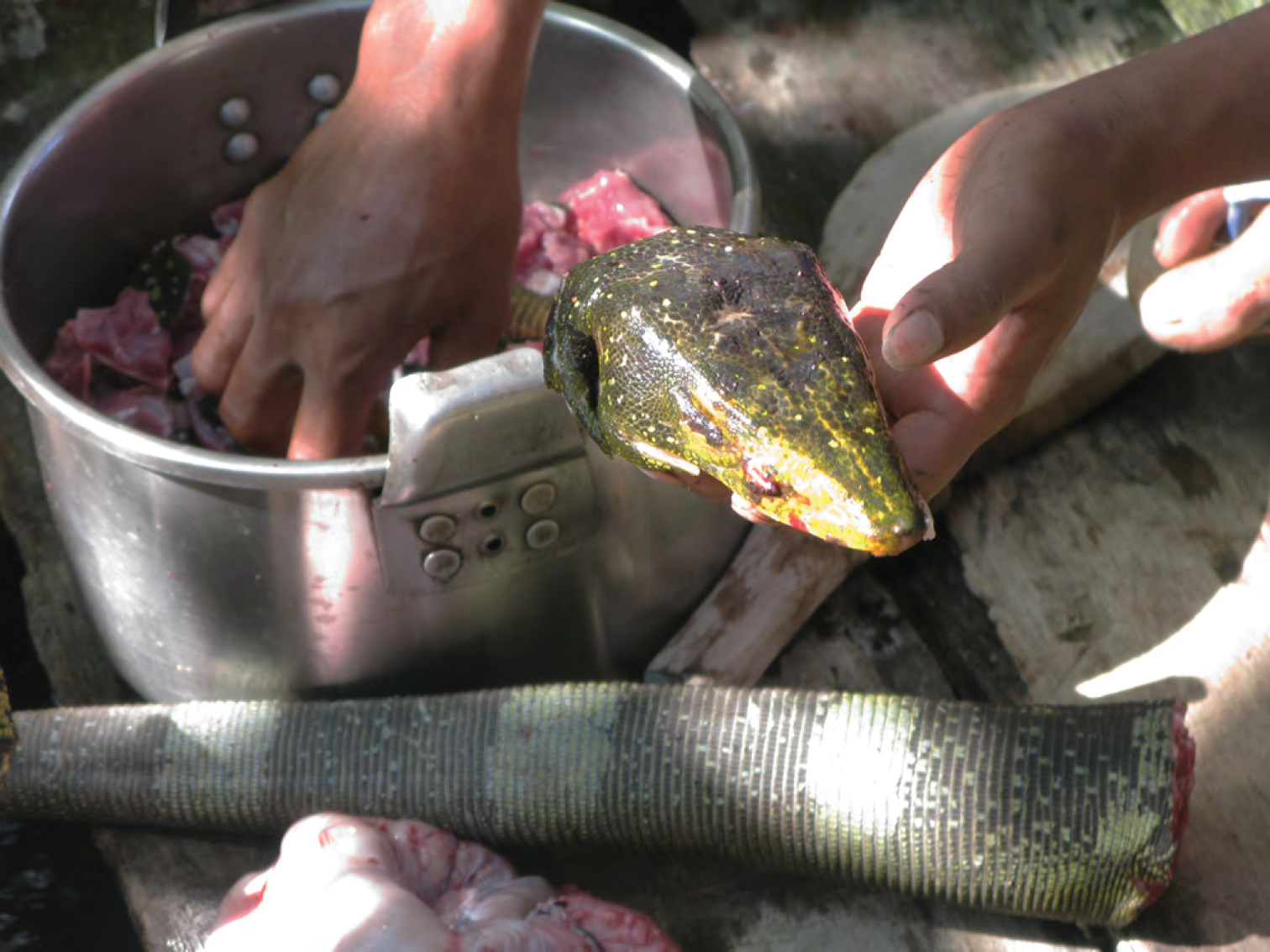 Varanus bitatawa (skull and partial specimen salvaged: KU 330636) stew being prepared by Agta tribesmen. Photo: RMB.